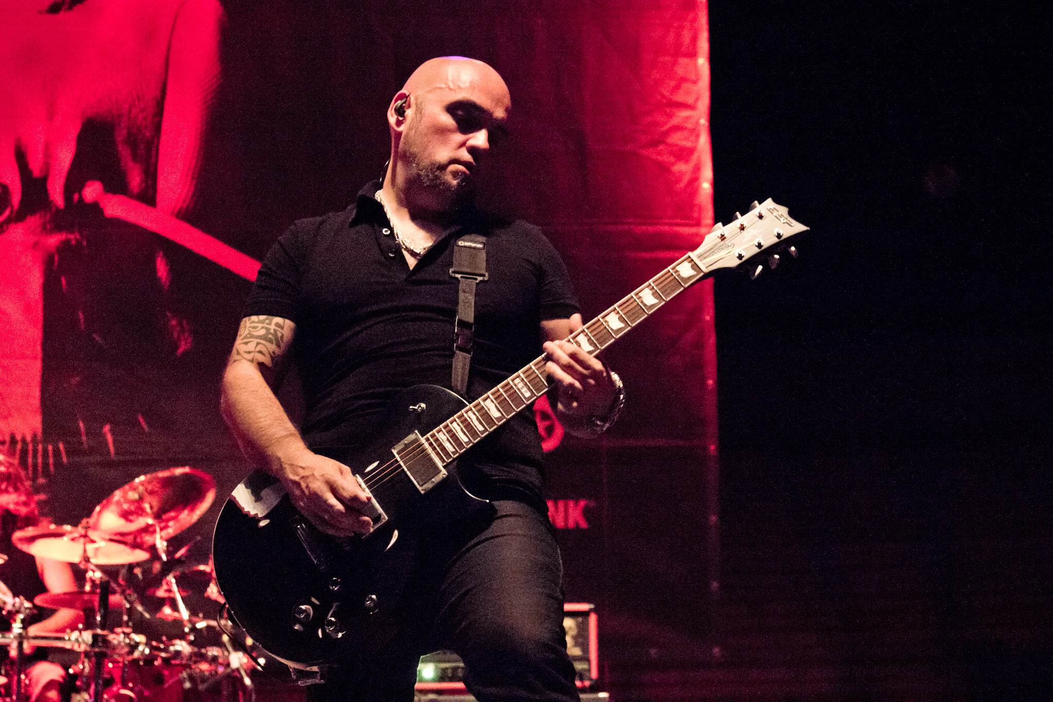 Spanish metal band Sôber at Asaco Metal Fest 2013, Parla, Spain.